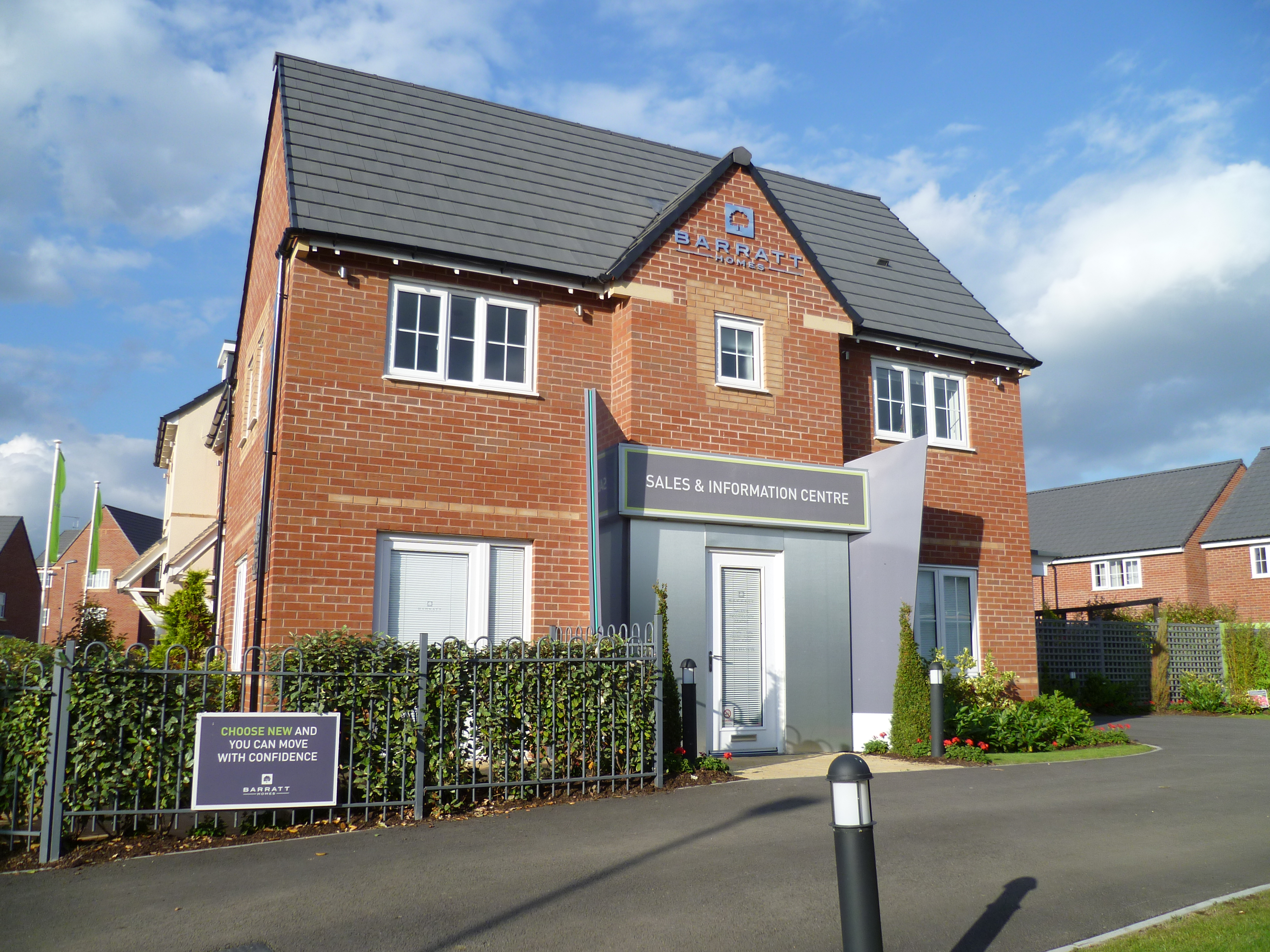 Barratt Homes sales and information centre